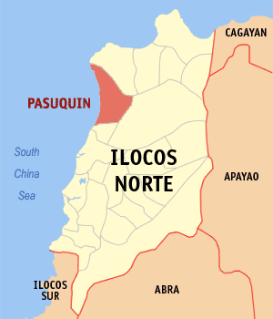 Map of Ilocos Norte showing the location of Pasuquin